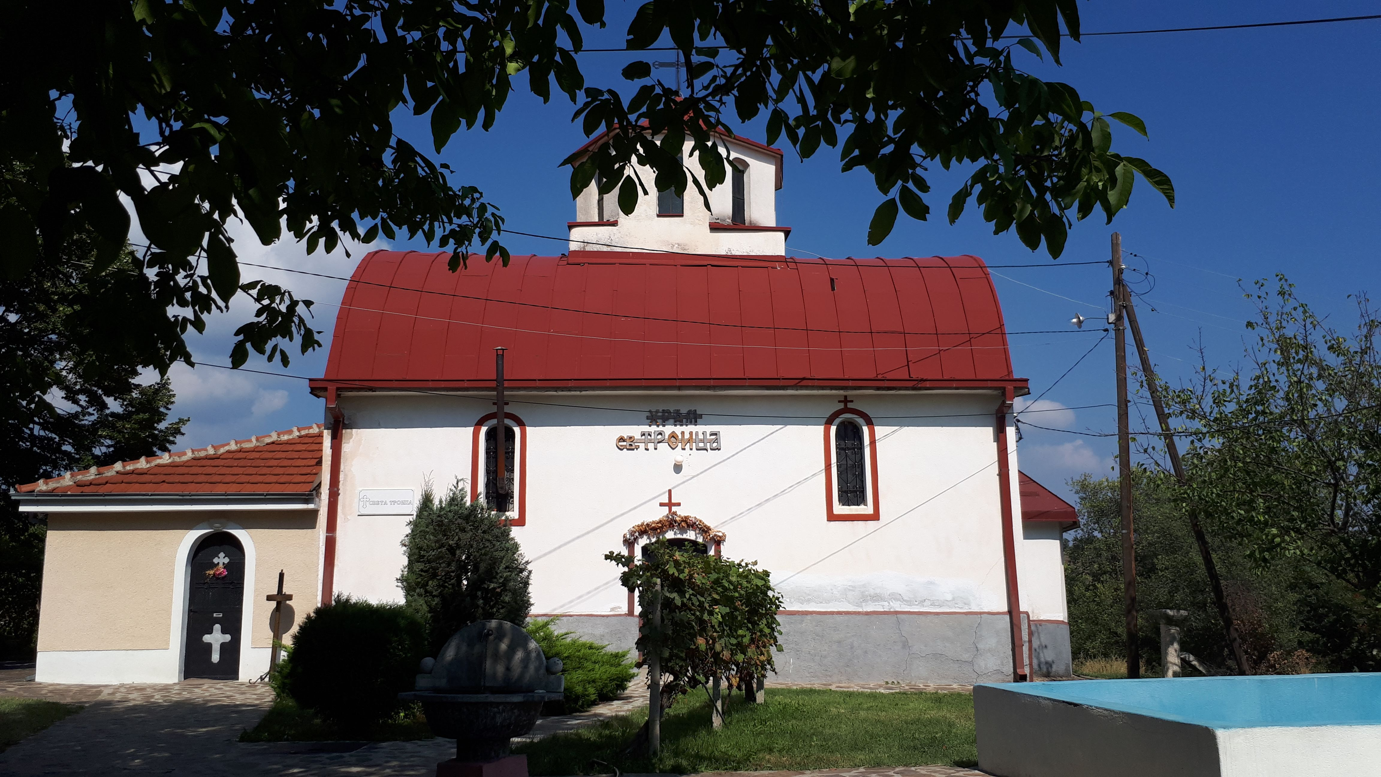 View of the Holy Trinity Church in the neighbourhood Bukovski Livadi, near Bitola